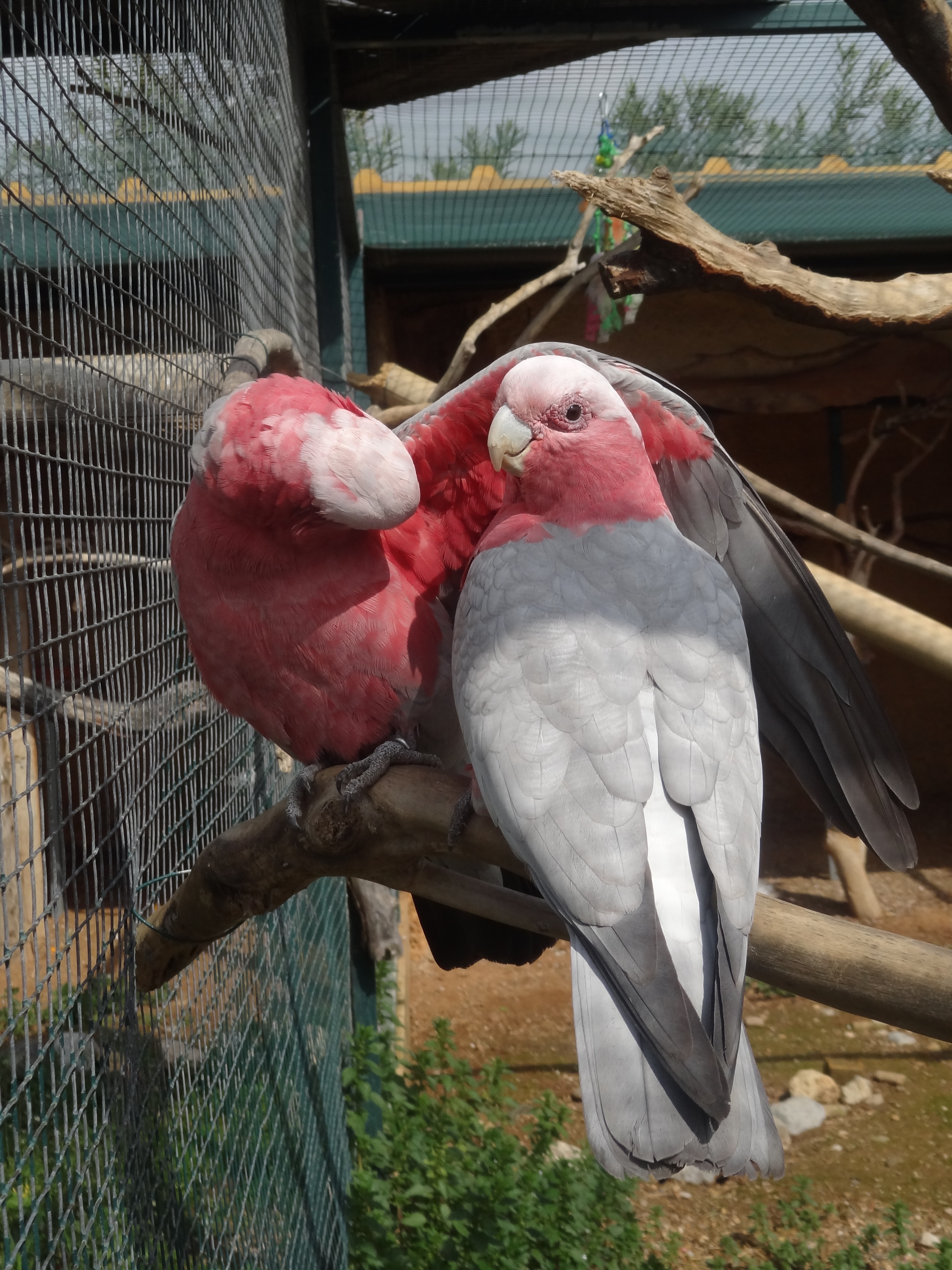 Two Galah (also known as Roseate Cockatoo) at Attica Zoological Park, Spata, Greece.